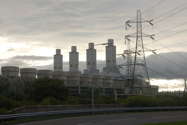 Gas fired power station at Rockcliffe Hall - Connah's Quay